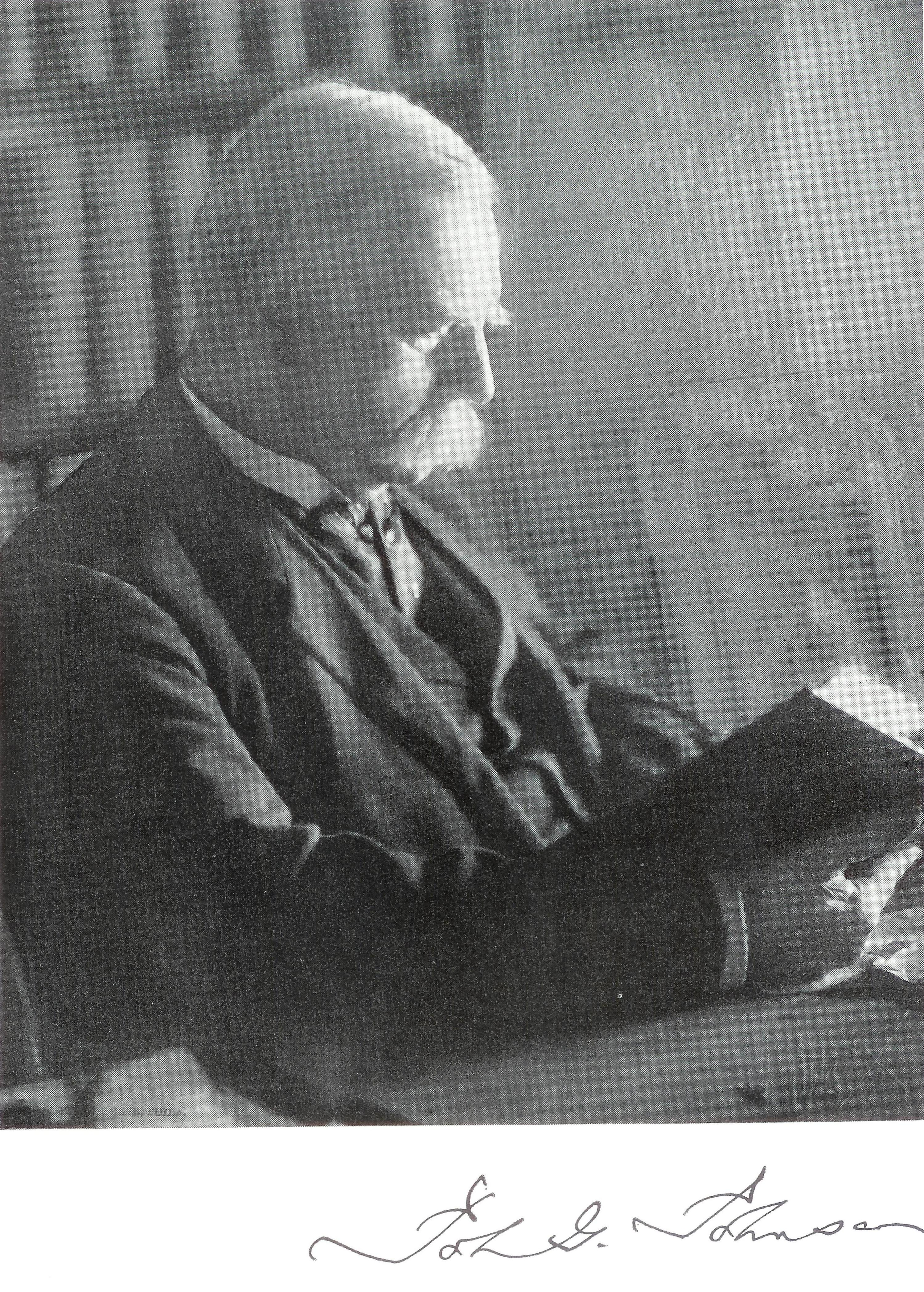 Frontispiece from John G. Johnson, et al., Catalogue of a Collection of Paintings and Some Art Objects (Philadelphia: 1913).